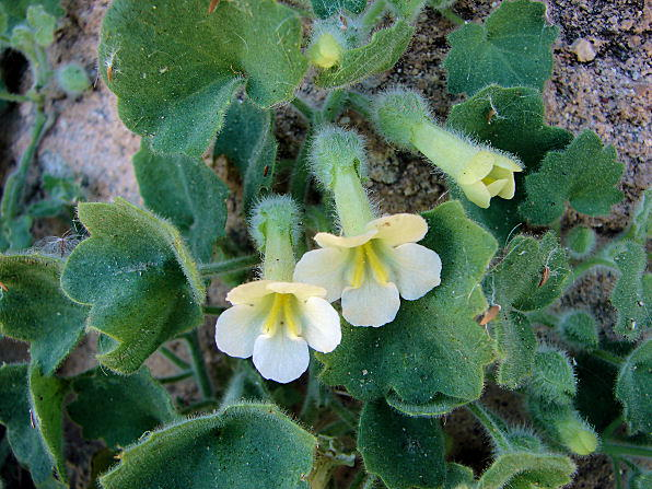 Close up of Mabrya acerifolia, on a cliff wall at Totilla Flat, Arizona